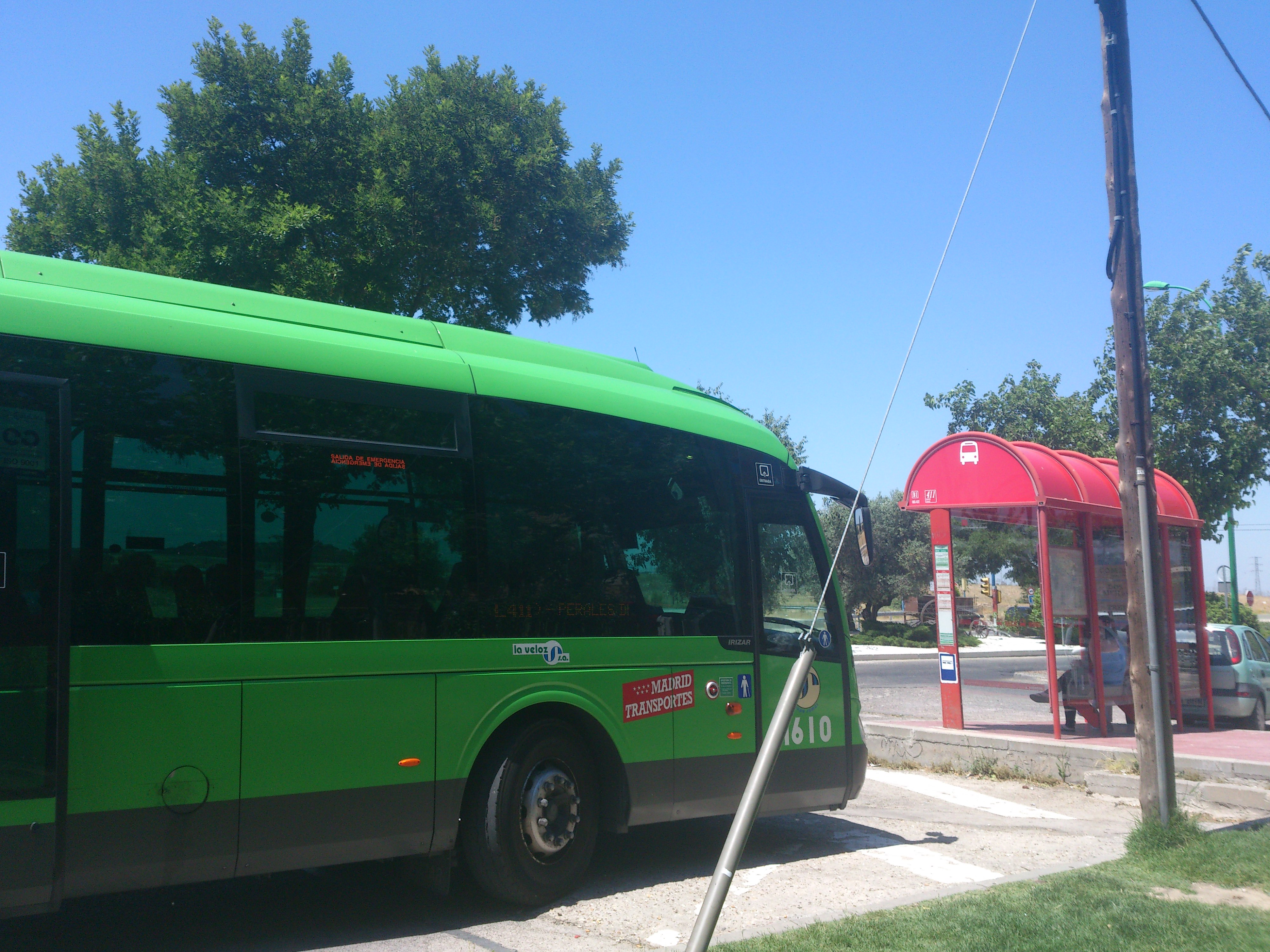 Irizar i4LE bus (#1610, reg. 0950 GXK) with Volvo chassis in Madrid, Spain. Line 411. Consorcio Regional de Transportes de Madrid (CRTM) - La Veloz S.A. operator.